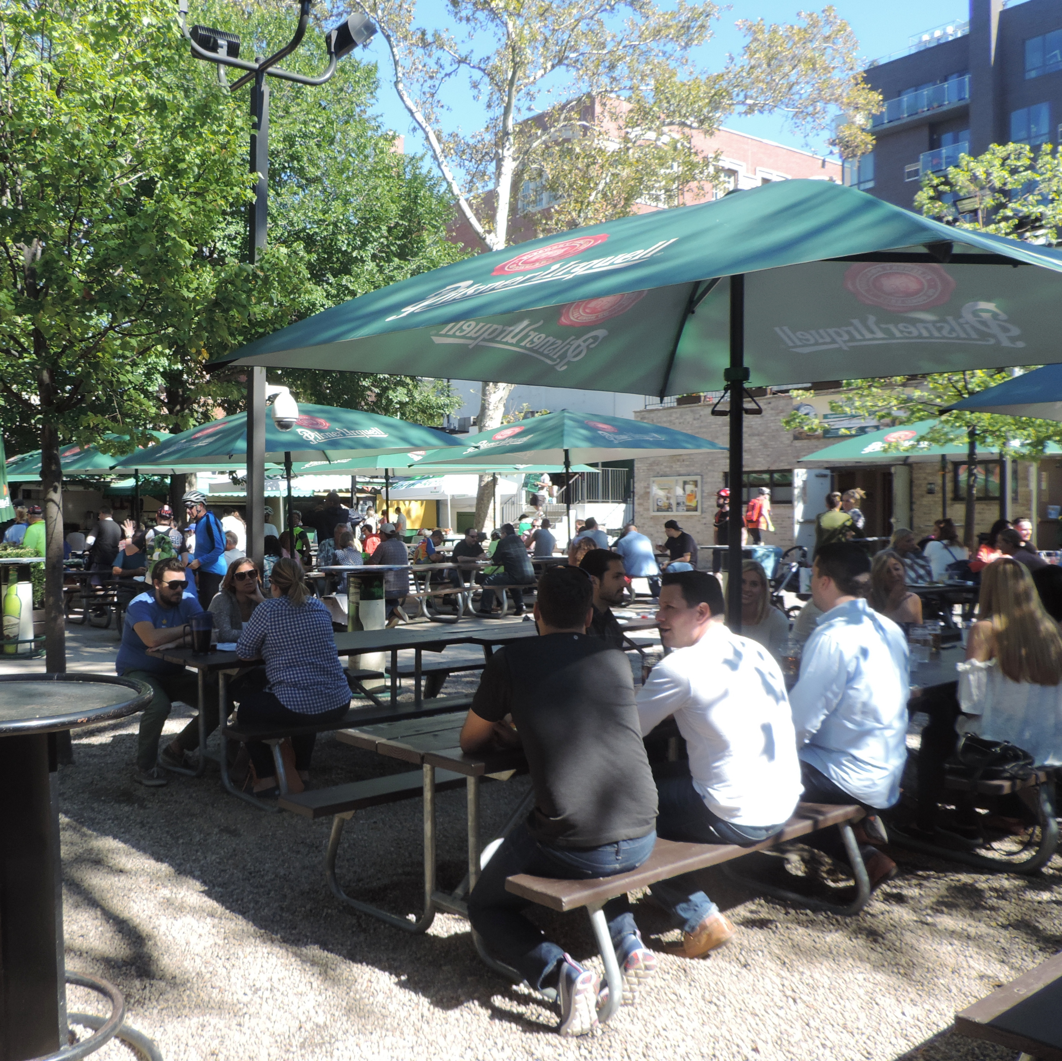 Looking northeast into beer garden on a sunny midday.